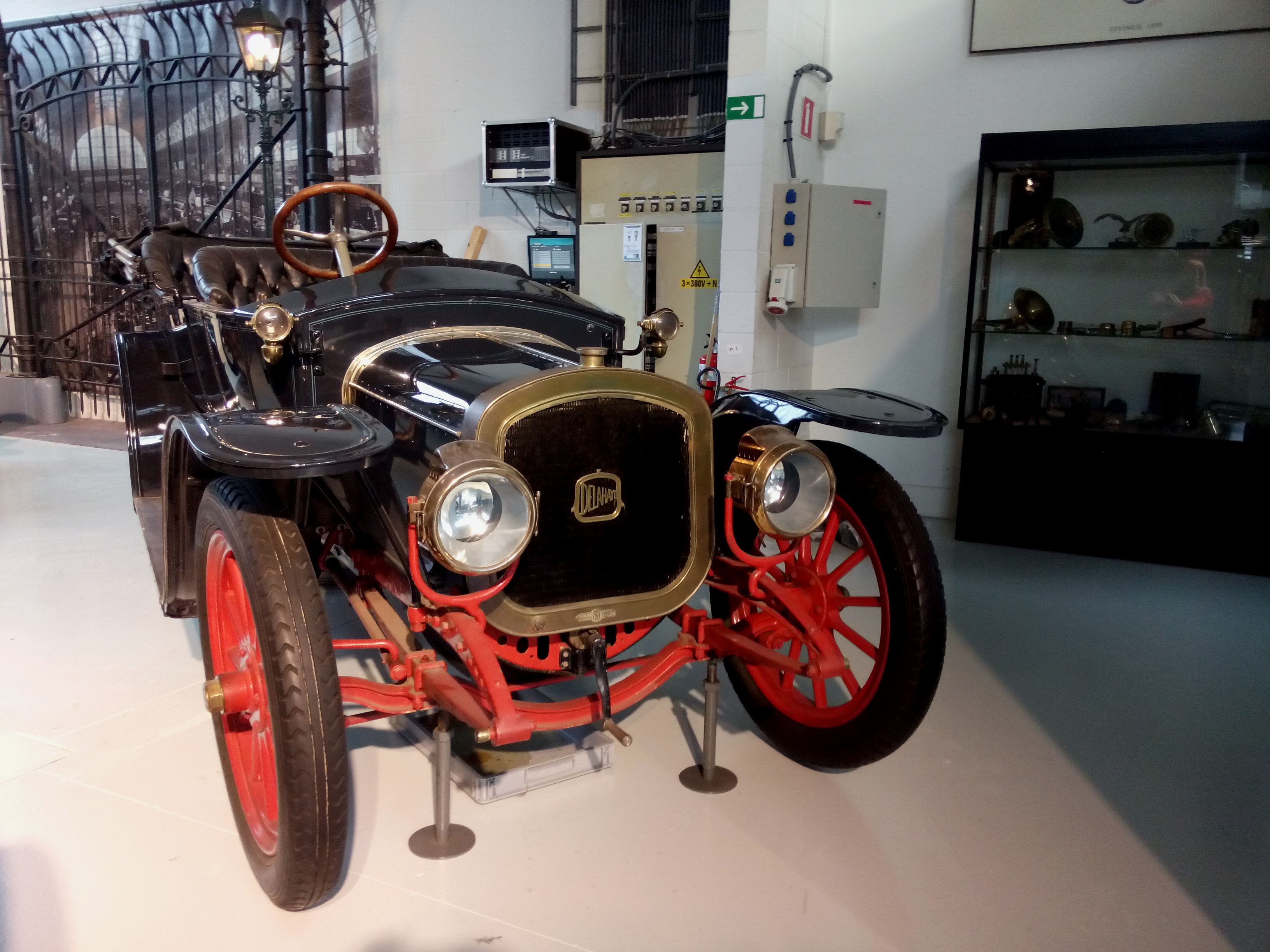 4 cyl - 1944 cc - 12/16 hp - 'Double Phaëton'